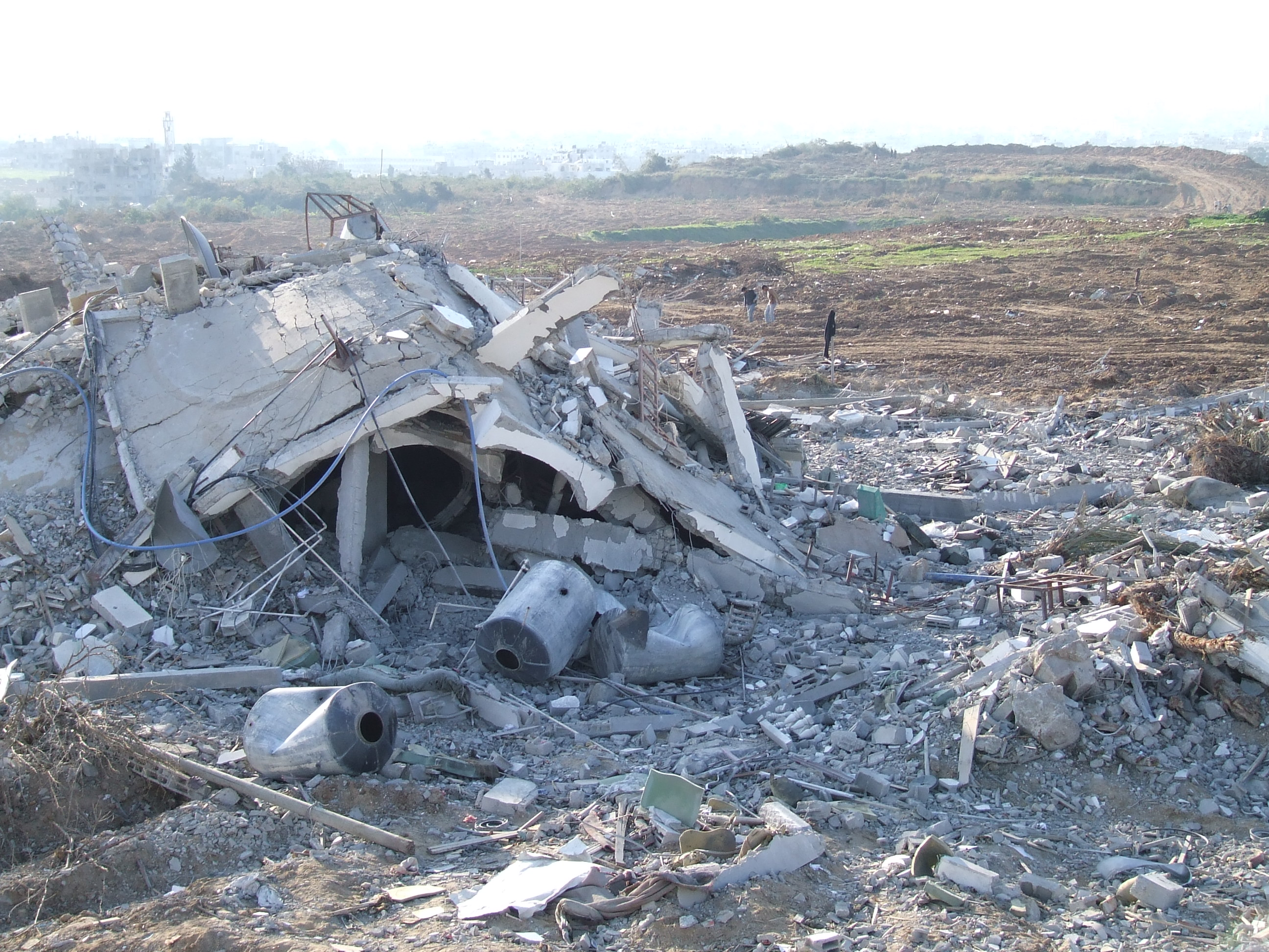 Back to the bronze age